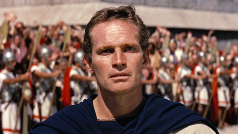 Cropped screenshot of Charlton Heston from the trailer for the film Ben Hur